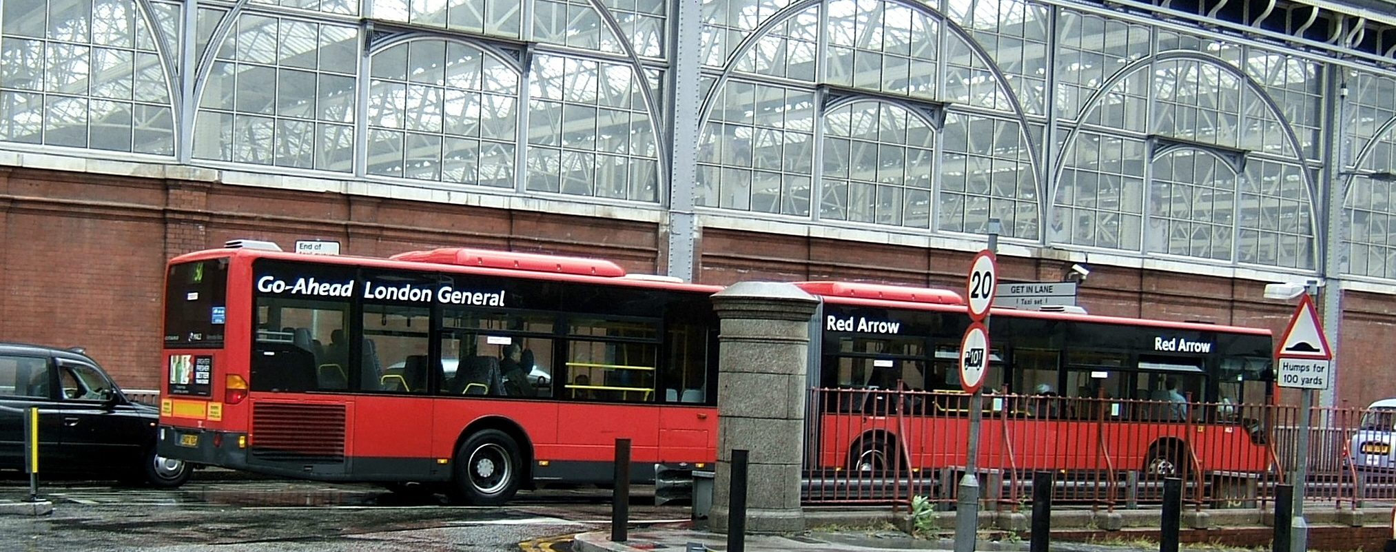 A Go-Ahead London General Red Arrow bus, due to be replaced in 2009.